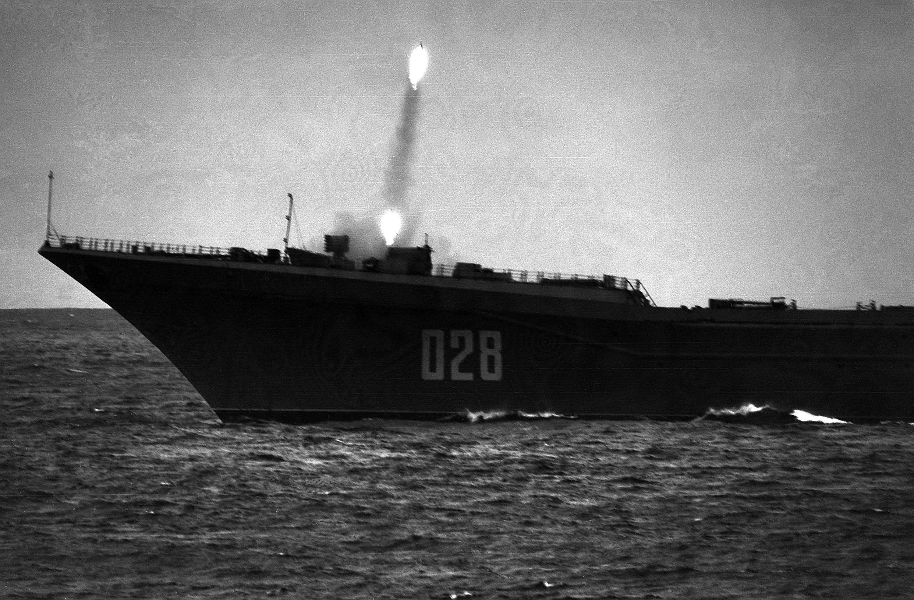 A port view of the bow of the Soviet nuclear-powered guided missile cruiser FRUNZE as two missiles are launched from the SA-N-9 vertical missile launcher.